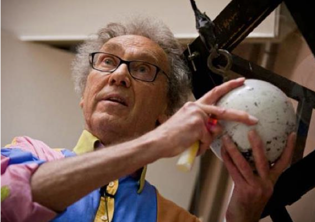 A photo of Prof. Walter Lewin in 2011